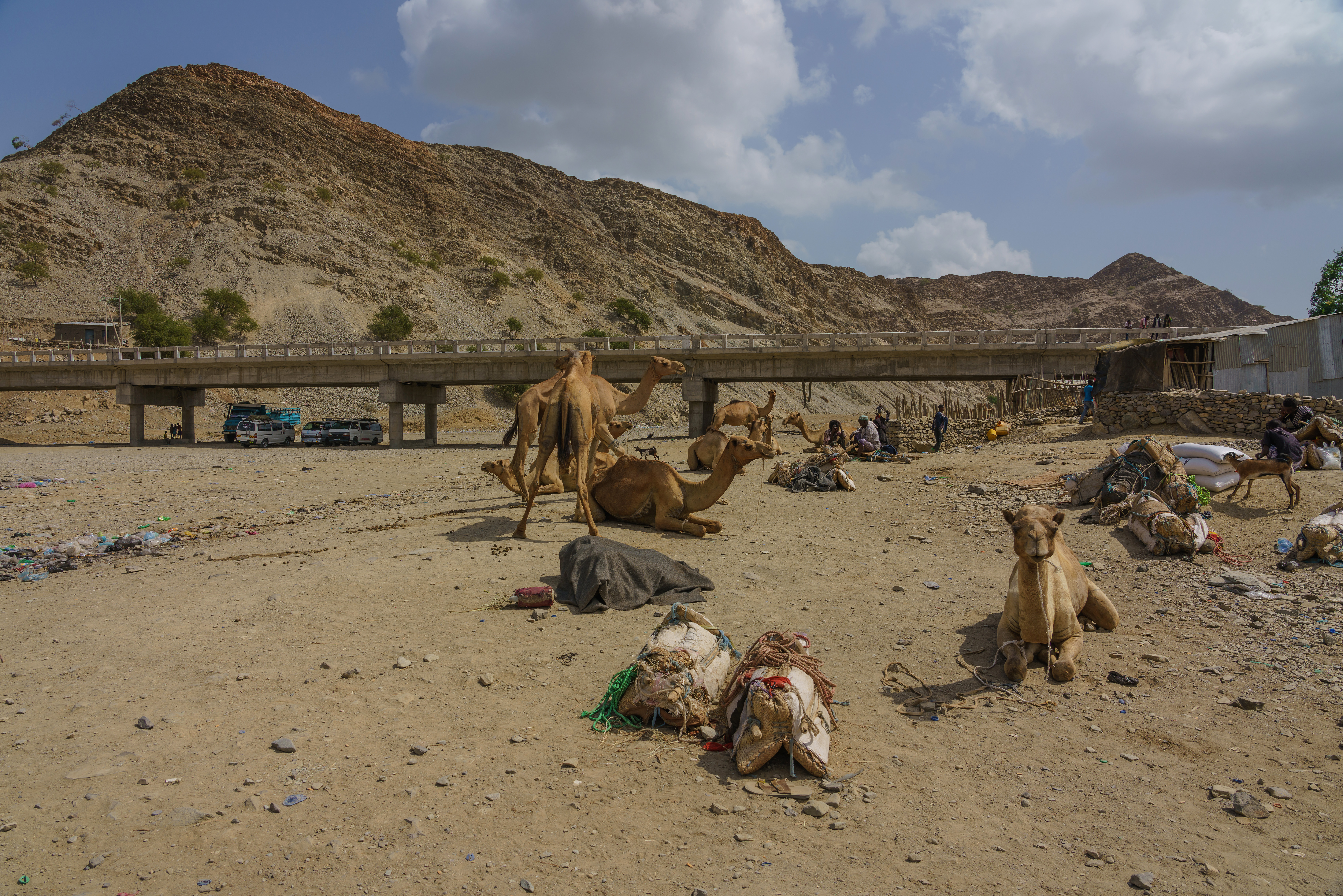 Berhale town, Afar Region, Ethiopia